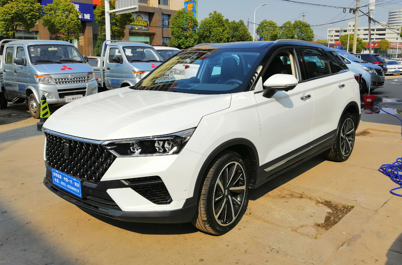 Bestune T77 photographed in Hefei, Anhui province, China.